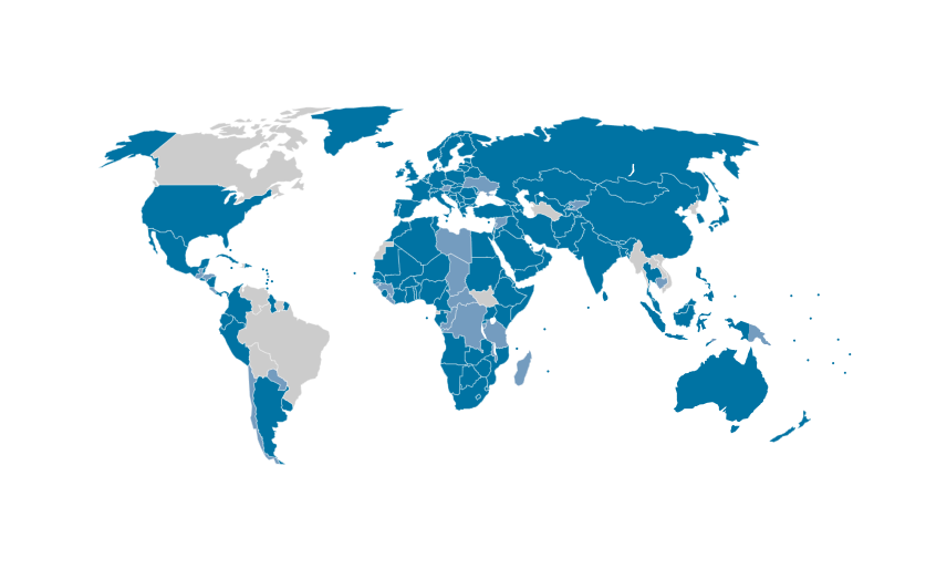 World map of states related to the International Renewable Energy Agency (IRENA). Green represents the Member States, turquoise the signatory states and states in accession.